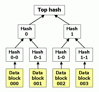 Diagram of a binary hash tree. Original illustration by David Göthberg, Sweden. Released by David as public domain.